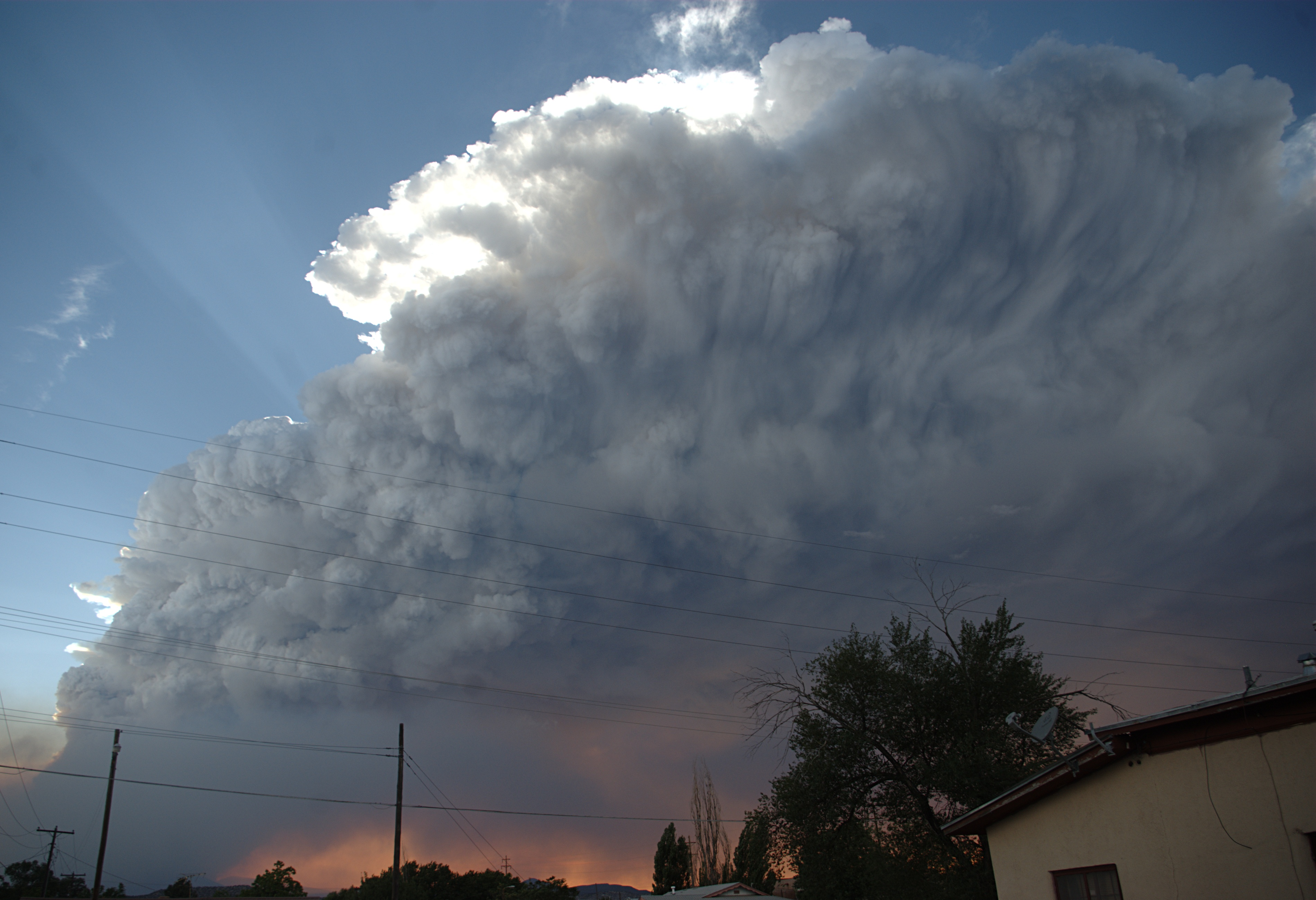 Smoke from the Las Conchas Fire seen from Española, New Mexico. The orange color is neither flame nor sunset but sunlight coming through the smoke.